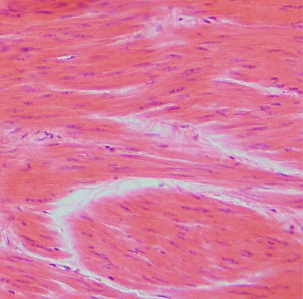 smooth muscle cells, haemalum-eosin stain